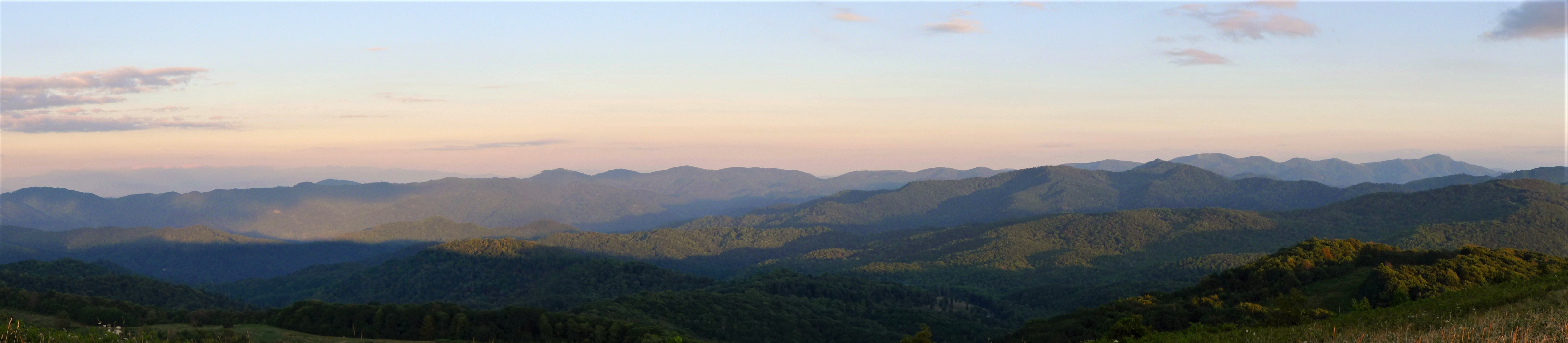 Panorama taken from Max Patch 2013